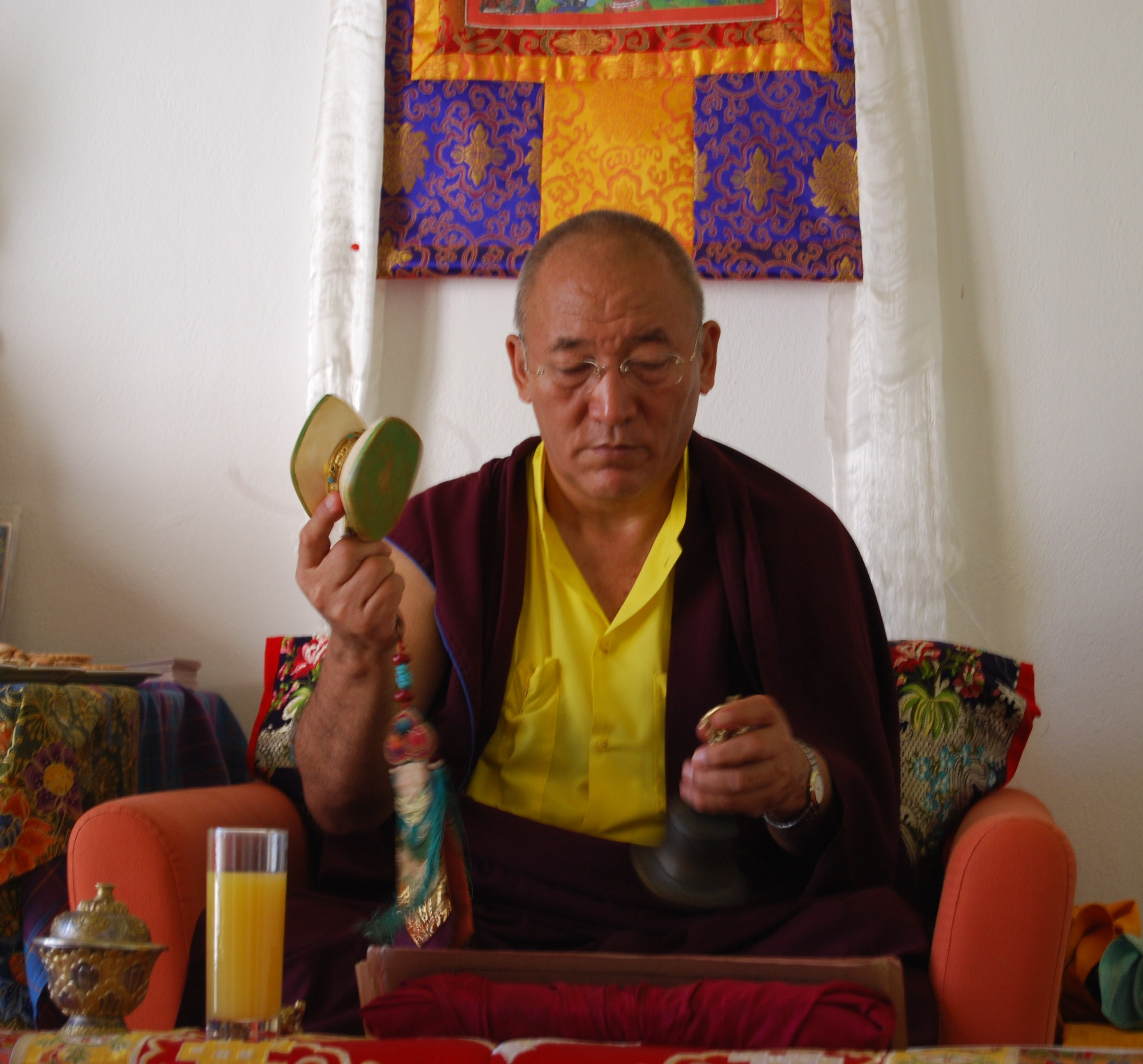 Ayang Rinpoche during teachings